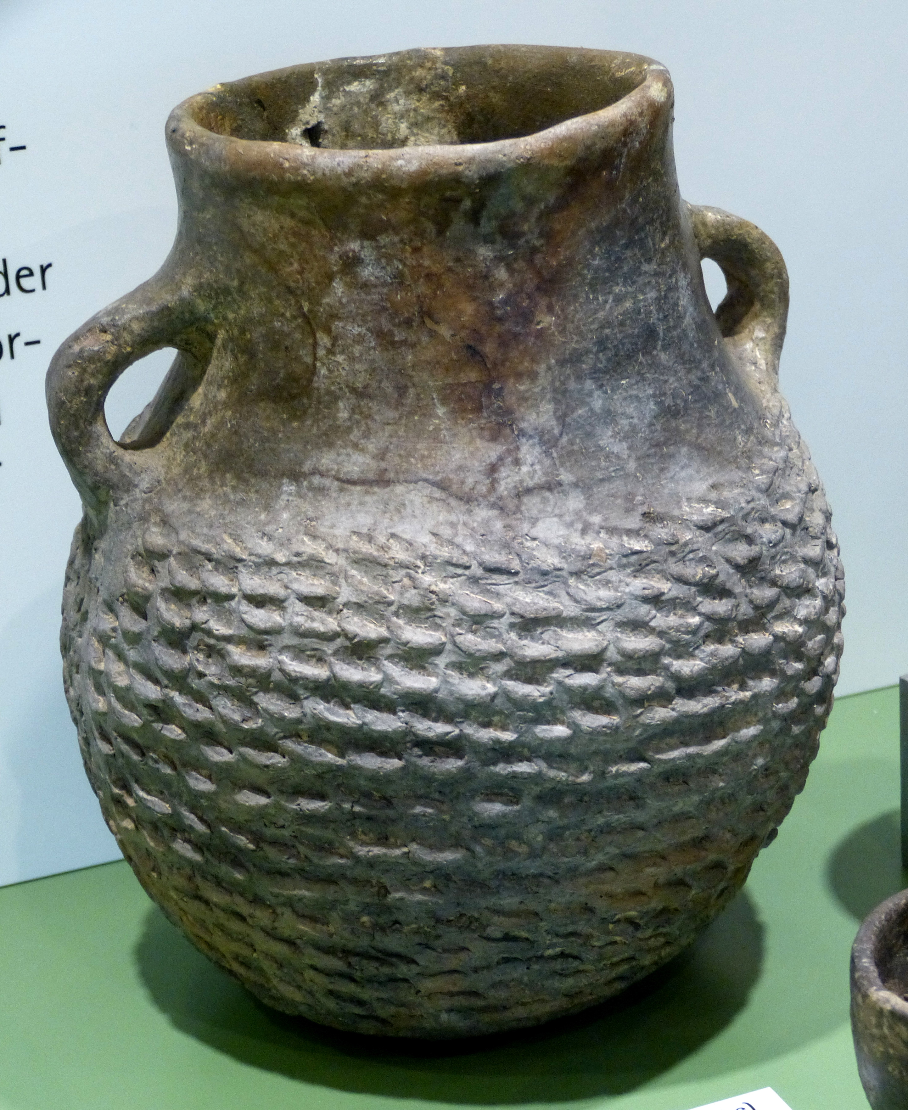 Eggenburg ( Lower Austria ). Krahuletz-Museum: Amphora of the Veterov culture, from Limberg.